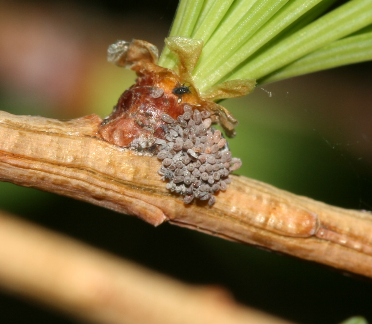 Bolton Muir Wood, East Lothian, Scotland (NT507678) Ref